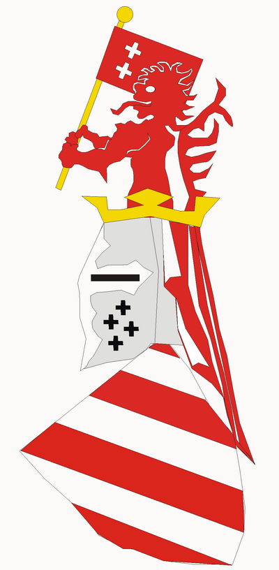 Coat of arms Kosača (XV c. AD).